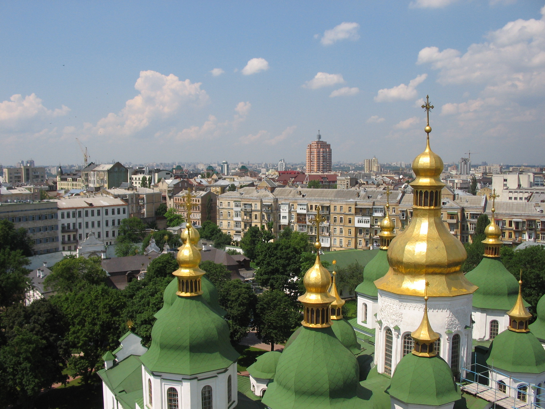 View of Kiev seen from the belltower of the Saint Sophia Monastery in Kiev, the capital of Ukraine.